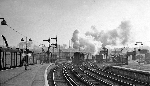 Maidstone West Station, with trains. View southwards, towards Paddock Wood; ex-South Eastern & Chatham Paddock Wood - Maidstone - Strood (Medway Valley) line. A freight train approaches, headed by a Class N 2-6-0, while a Class H 0-4-4T stands in the bay at the left with a train for Tonbridge via Paddock Wood. At the time of this photograph, the Medway Valley line had to wait another four years, until 18/6/62, before the Third-Rail extended to Paddock Wood.